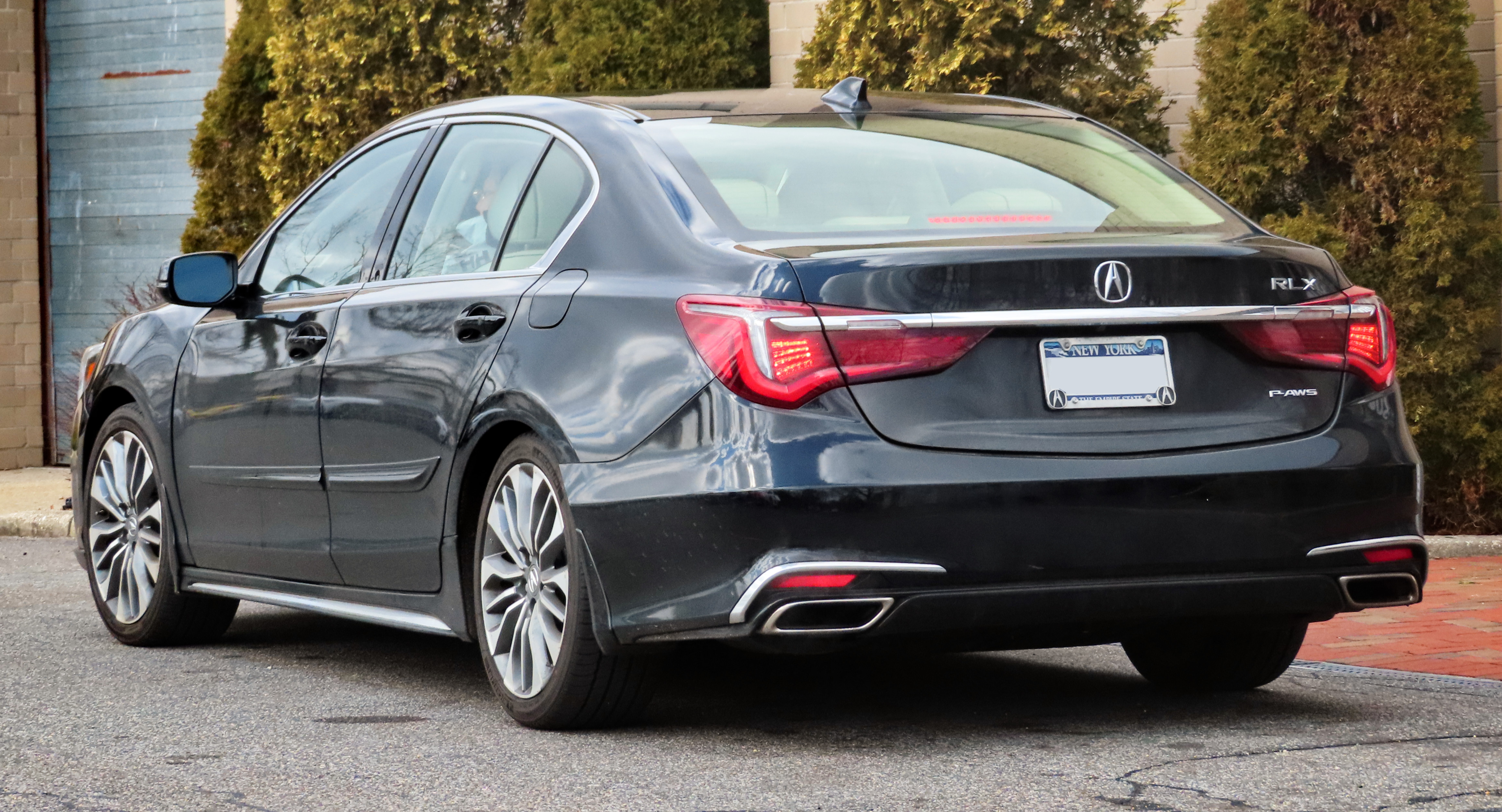 A 2018 Acura RLX photographed in Huntington, New York, USA